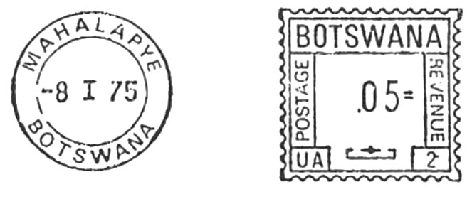 Meter stamp catalog image, Botswana type A1